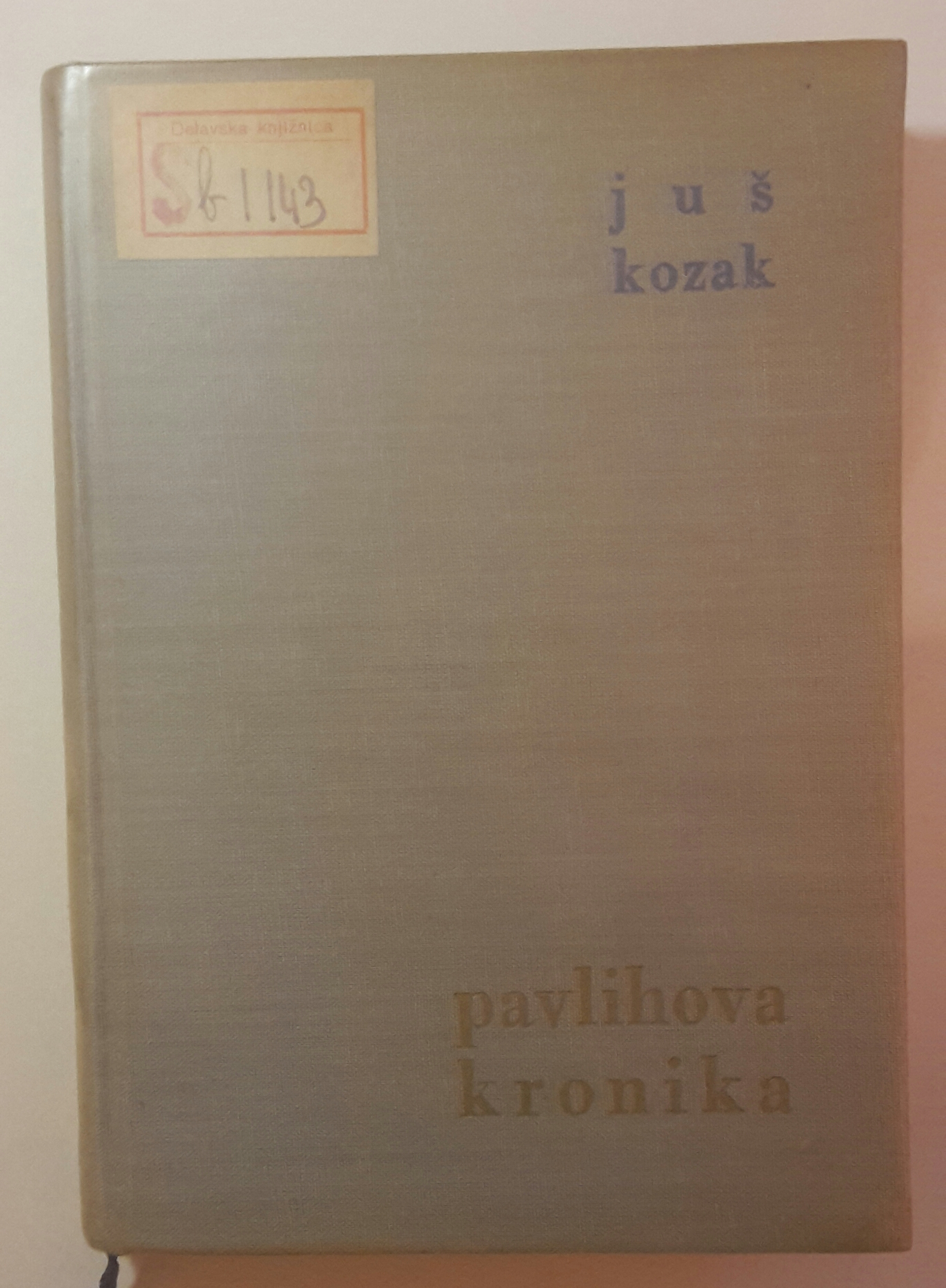 Pavlihova kronika